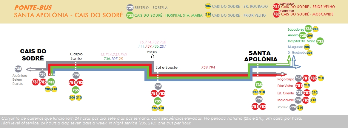 Bus connection between Cais do Sodré Train Station and Santa Apolónia Train Station, in Lisbon. 2015 version.